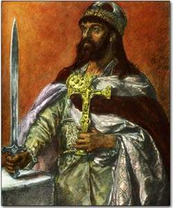 The Kings and Dukes of Poland by Jan Matejko: Mieszko I